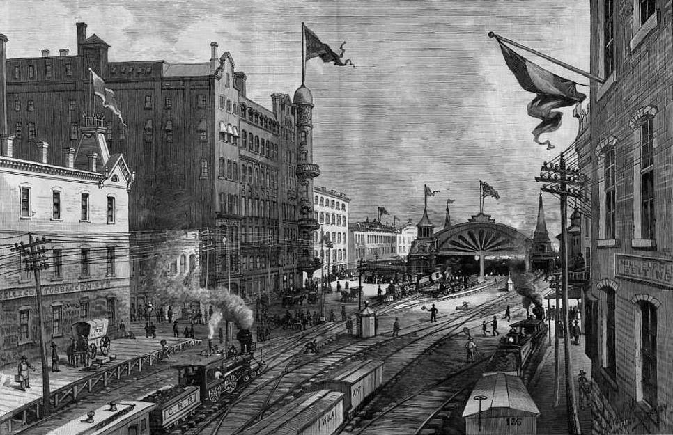 Atlanta, Georgia -- the Commercial Centre, a wood engraving drawn by Horace Bradley and published in Harper's Weekly, February 12, 1887.